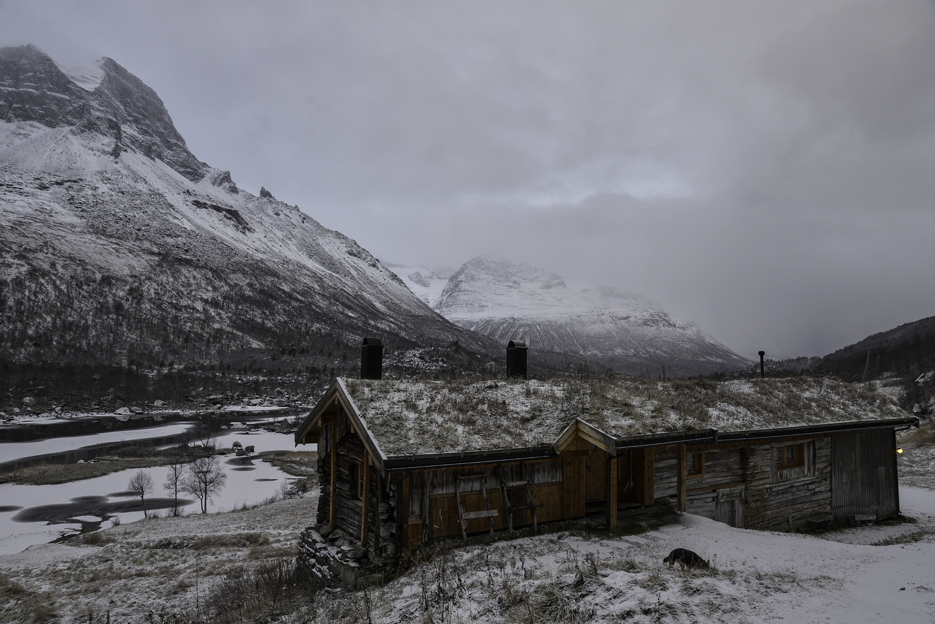 Innerdalshytta in the Trollheimen mountain area, Møre og Romsdal, Norway